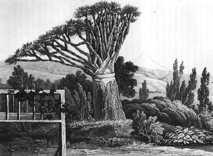 The Great Dragon Tree in Tenerife, drawn by Maria Graham (Maria Callcott) in 1821, One of several illustrations in her book Journal of a voyage to Brazil, and residence there, during part of the years 1821, 1822, 1823.